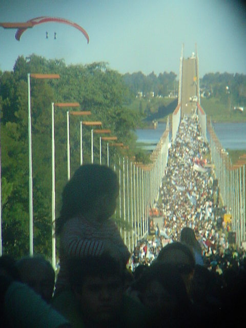 Marcha piquetera de 2007 en el puente General San Martín, haciendo boycott a las industrias papeleras durante el Conflicto entre Argentina y Uruguay por plantas de celulosa